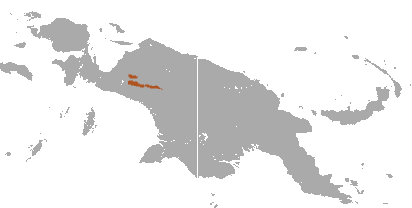 Dingiso (Dendrolagus mbaiso) range